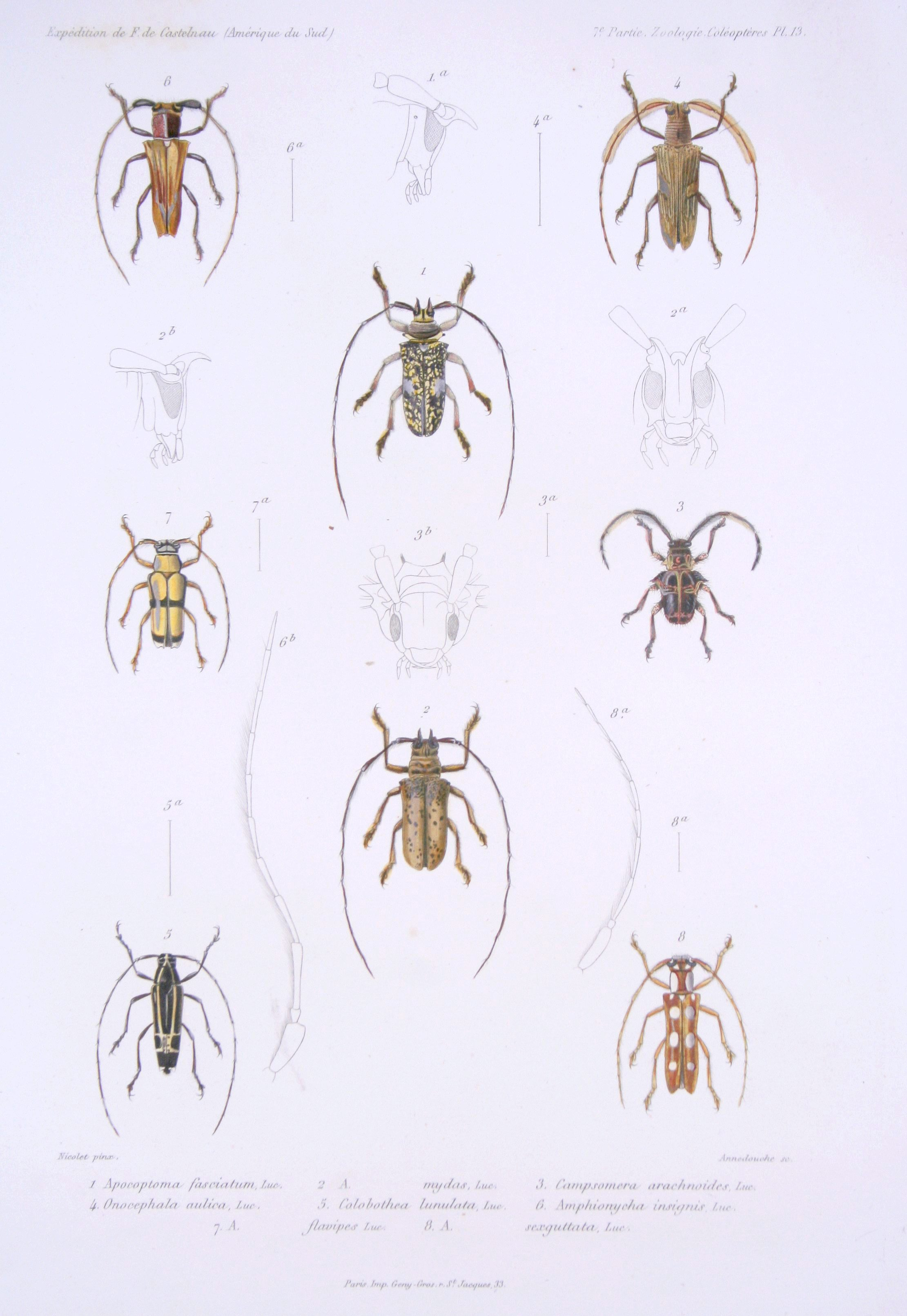 Apocoptoma fasciatum Luc. = Lochmaeocles fasciatus (Lucas, 1859)[check] (1a: head from lateral) A[pocoptoma] mydas Luc. = Tybalmia mydas (Lucas in Laporte, 1857[check]) (2a: head from frontal, 2b: head from lateral) Campsomera arachnoides Luc. = Tessarecphora arachnoides arachnoides (Lucas, 1859)[check] (3a: length, 3b: head from frontal) Onocephala aulica Luc. = Onocephala aulica Lucas in Laporte, 1859 (4a: length) Colobothea lunulata Luc. = Colobothea lunulata Lucas, 1859 (5a: length) Amphionycha insignis Luc. = Butocrysa insignis (Lucas, 1857) (6a: length, 6b: antenna) A[mphionycha] flavipes Luc. = Adesmus clathratus (Gistel, 1848) (7a: length) A[mphionycha] sexguttata Luc. = Adesmus sexguttatus (Lucas, 1857) (8a: length, 8[b]: antenna)